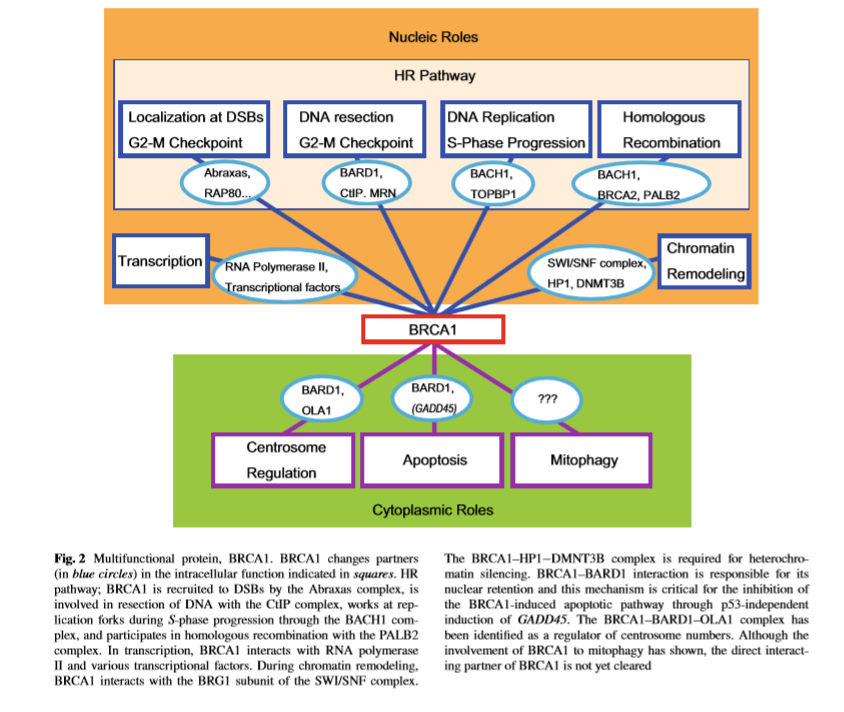 Quadro das funções que apresentam o envolvimento da proteína BRCA1